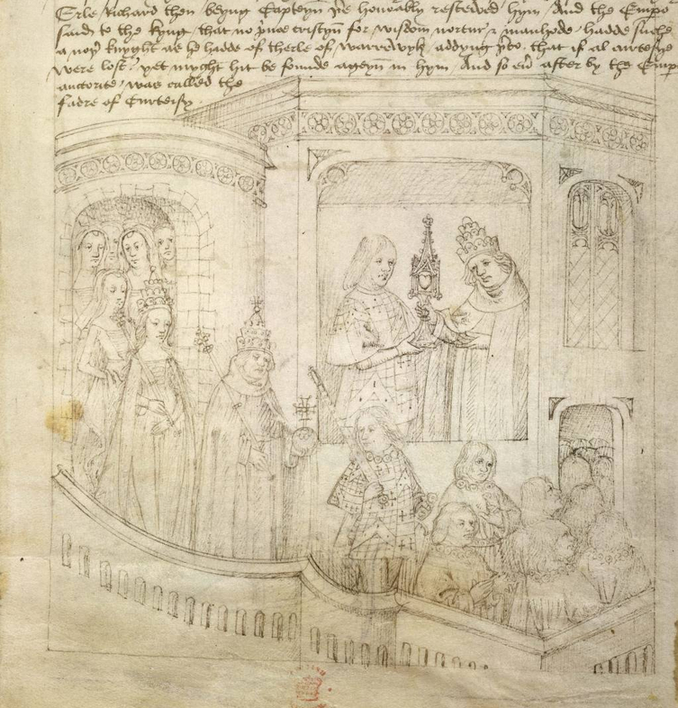 The visit of Sigismund to England The Beauchamp Pageants, 1485, British Library, cotton ms julius e iv